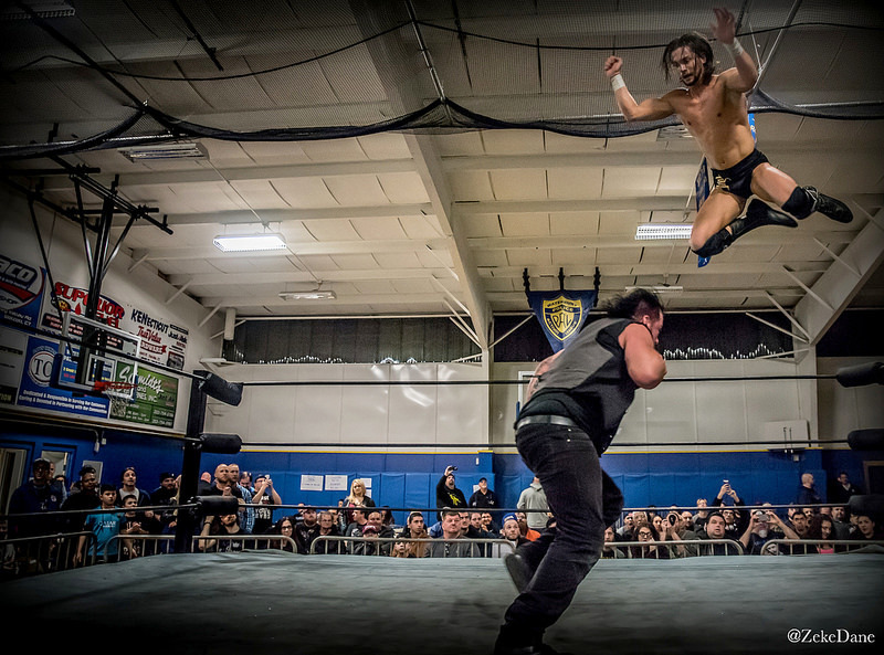 TK goes to the air against Sami Callahan at a Northeast Wrestling event in CT